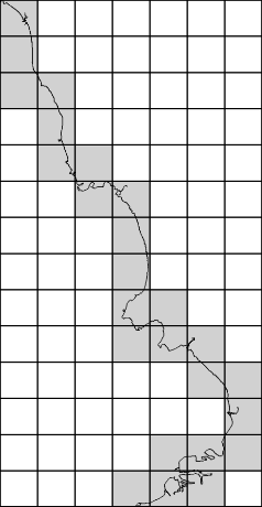 Calculating the length of the coast of Skåne, Sweden